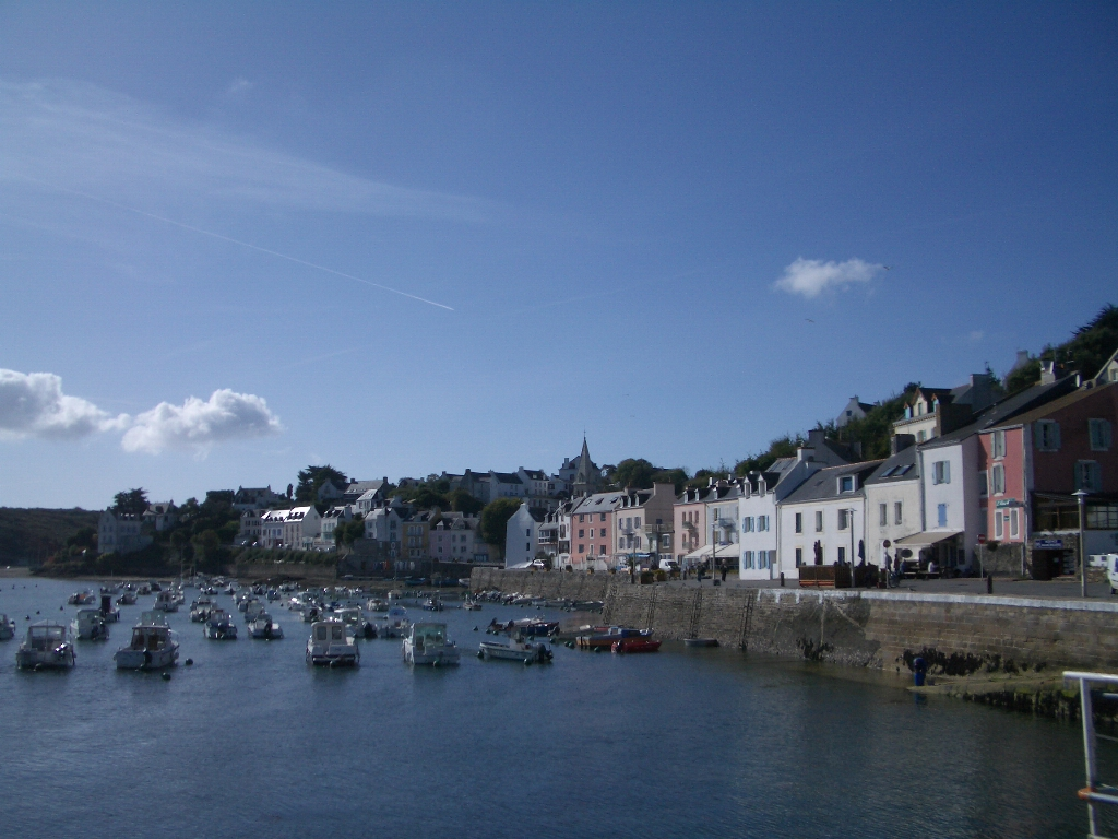 Houat island, Brittany, France